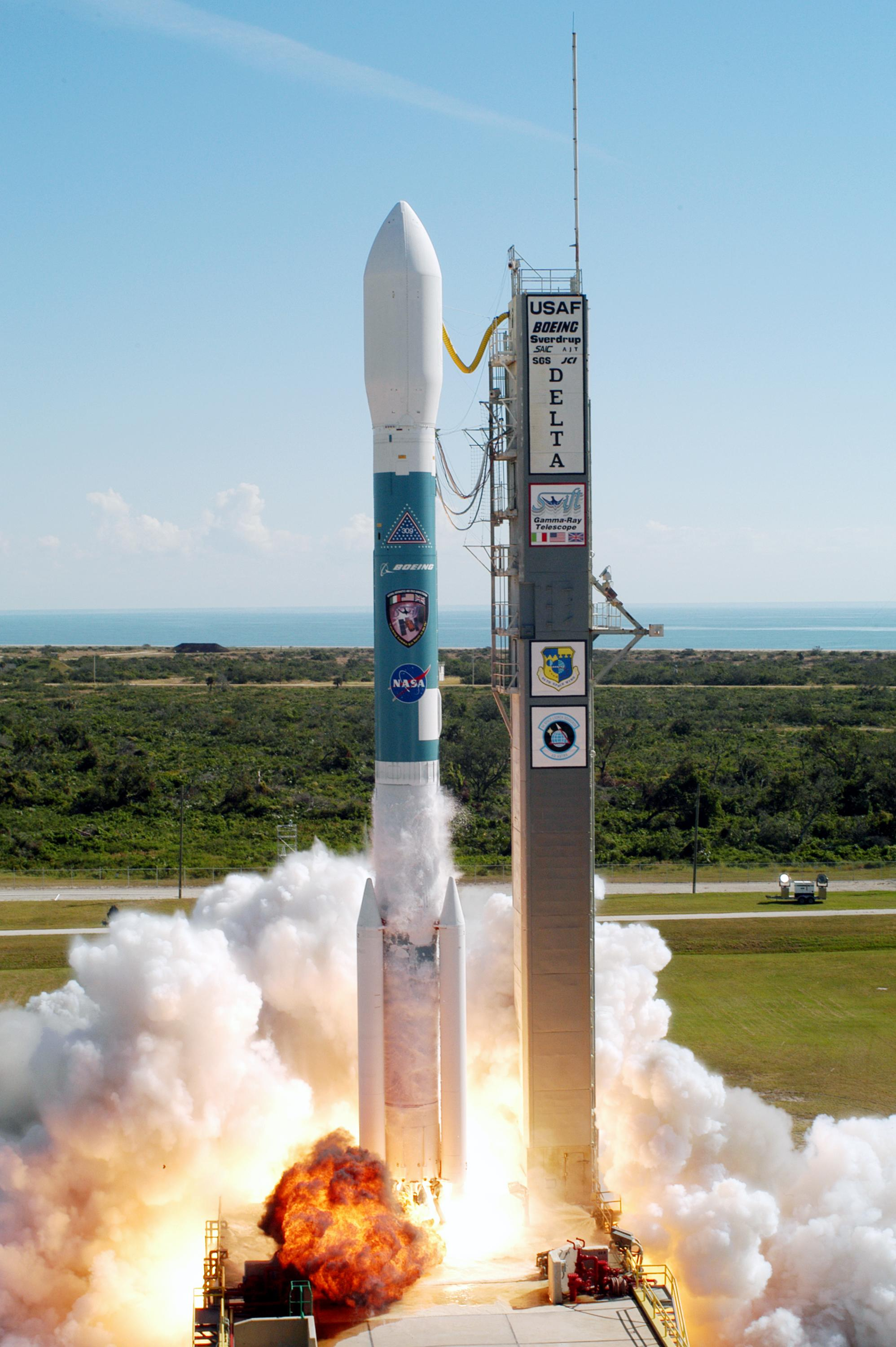 The engines of a Boeing Delta II expendable launch vehicle ignite to blast NASA's Swift spacecraft on its way at Complex 17A, Cape Canaveral Air Force Station, on Nov. 20 at 12:16:00.611 p.m. EST. Swift is a first-of-its-kind multi-wavelength observatory dedicated to the study of gamma-ray burst science. Its three instruments will work together to observe GRBs and afterglows in the gamma ray, X-ray, ultraviolet and optical wavebands.